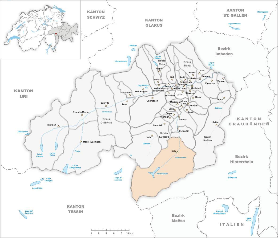 Municipality Vals